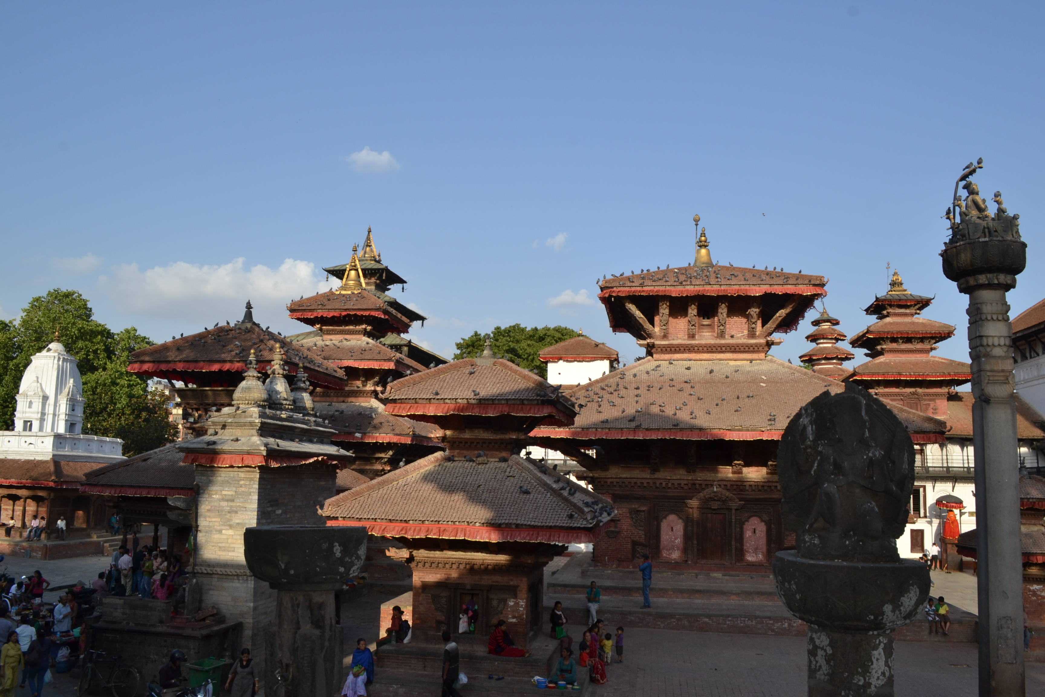 Basntapur Durbar Square at Newroad.